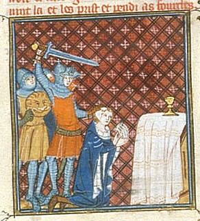 the murder of Charles, the Count of Flanders